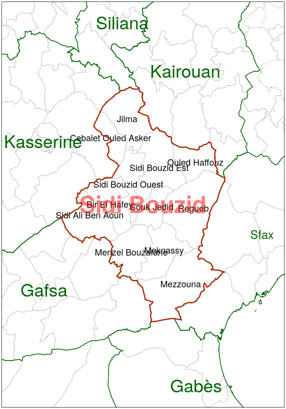 Sidi Bouzid Governorate (Tunisia) with delegations and neighboring governorates